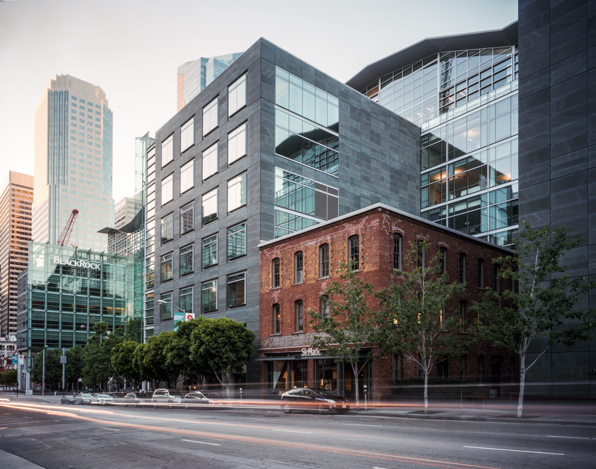 Detroit, Michigan. Foundry Square II Completed in 2003, the project incorporates a 30,000-square-foot historic building, faithfully restoring its brick exterior while renovating the interior to serve modern technology and functionality.